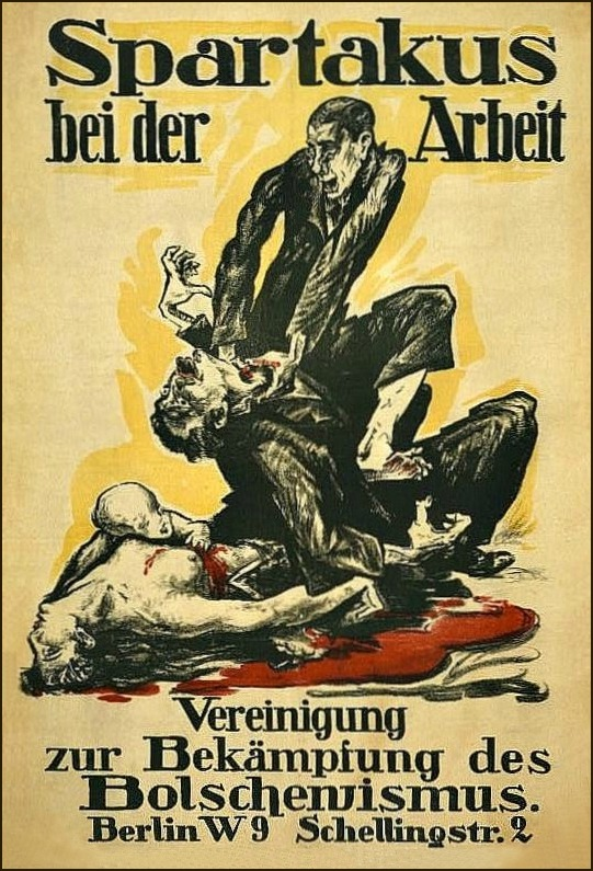 Poster showing a man, representing the communist group Spartakus, strangling another man. A woman and child lie in a pool of blood beneath the victim. Text: Spartakus at work.